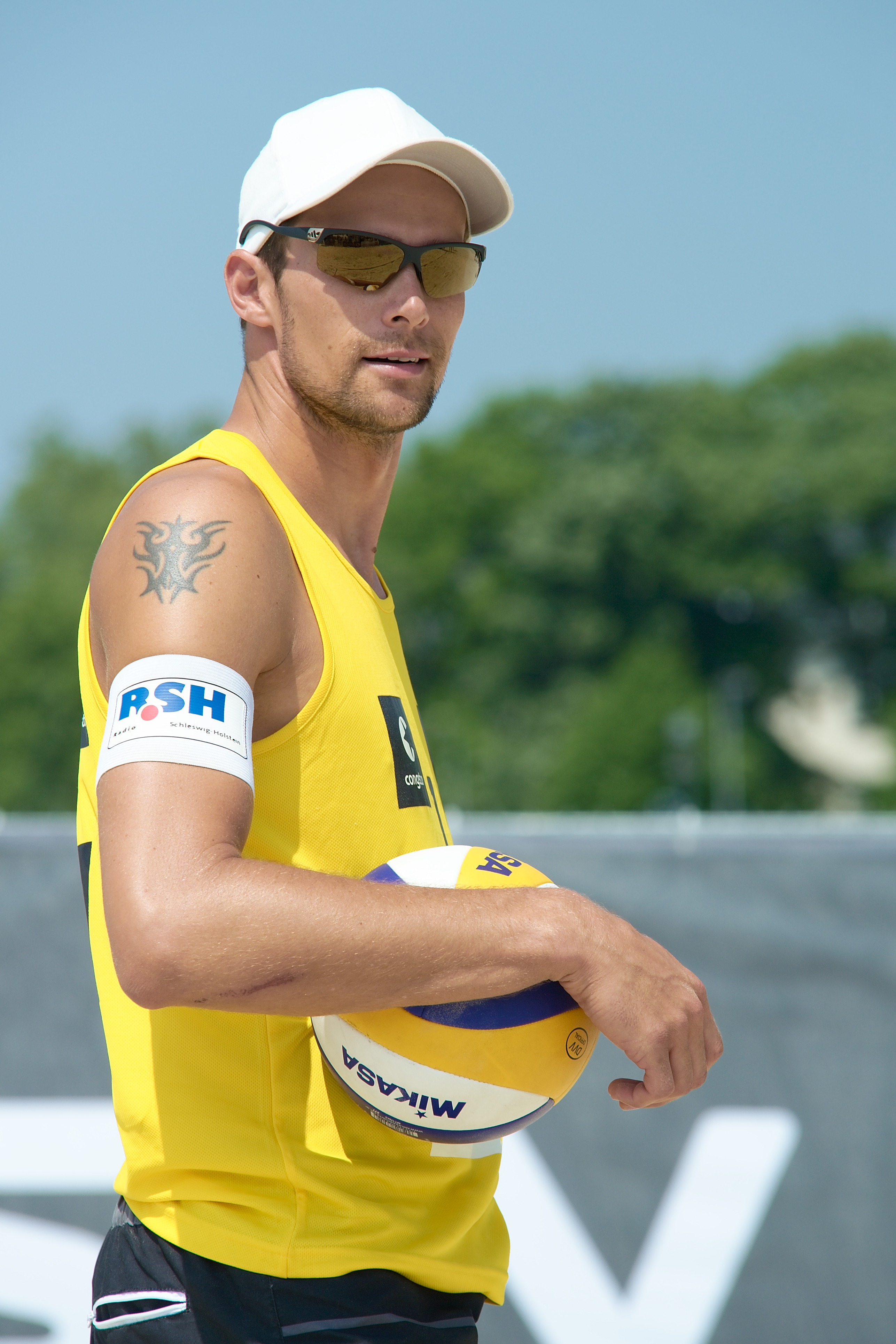 The German beach volleyball player Eric Koreng at the Smart Beach Tour tournament in Münster 2013.